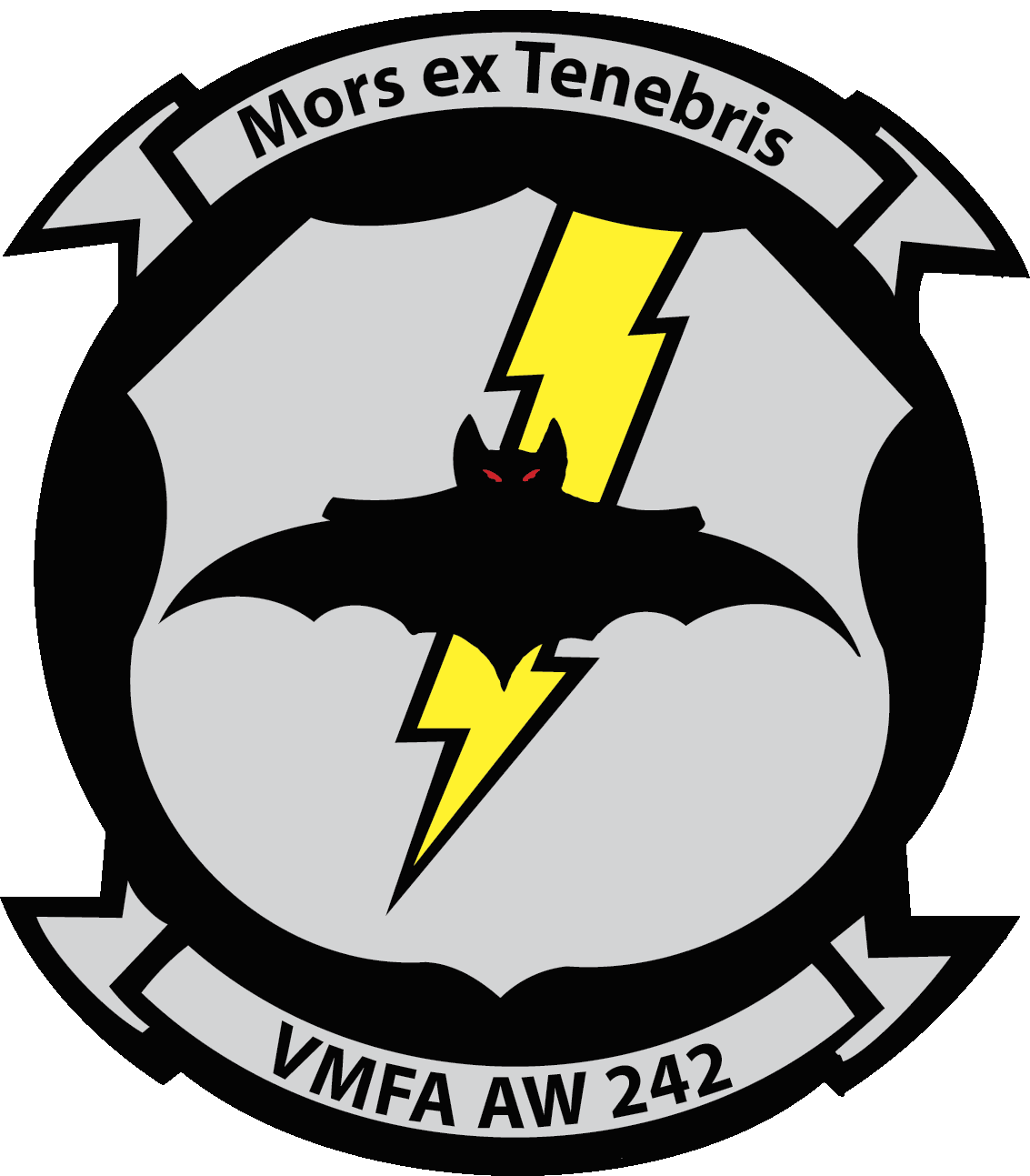 Squadron insignia for VMFA(AW)-242